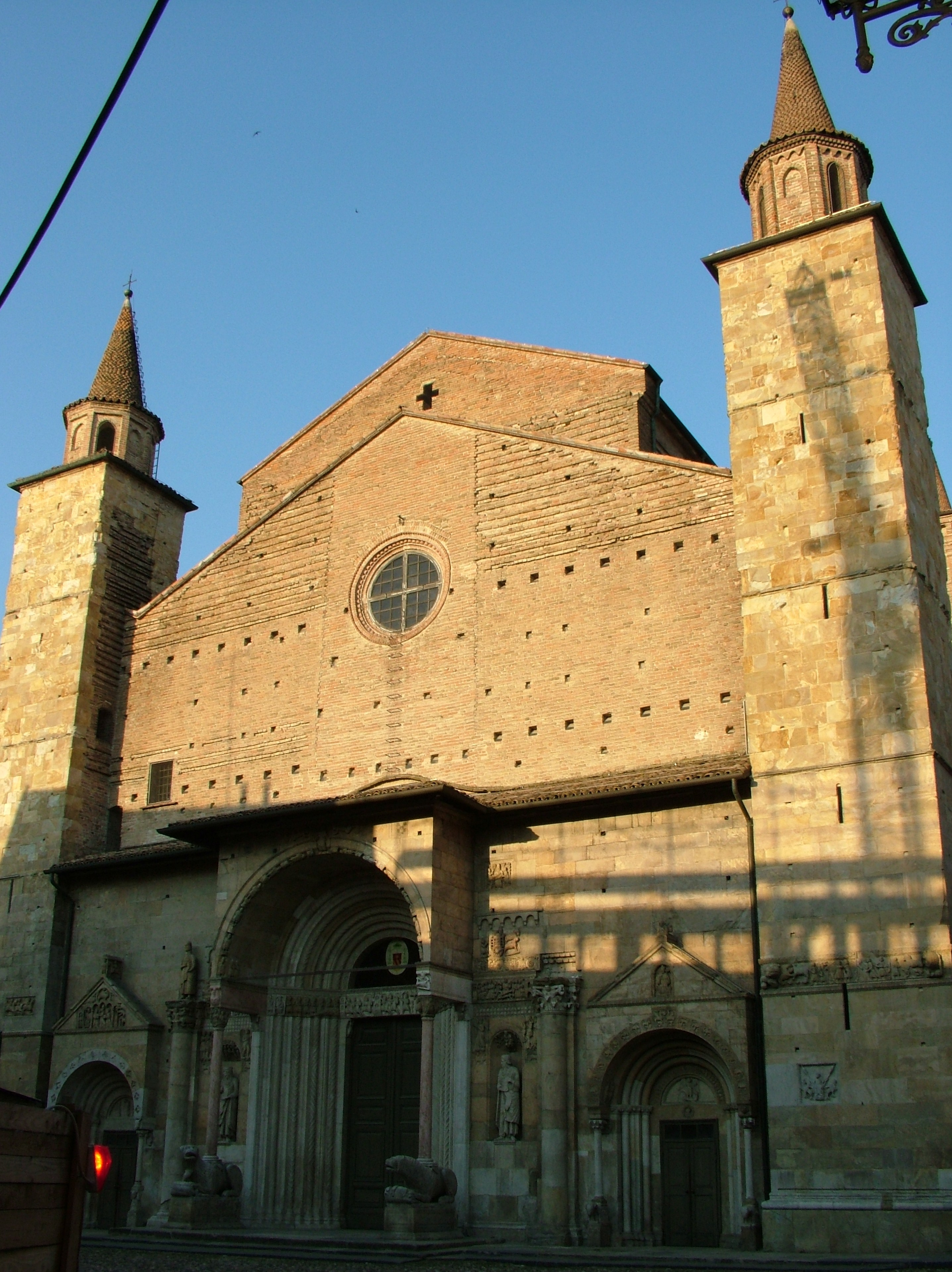 Facade of the Cathedral of Fidenza (PR) Italy